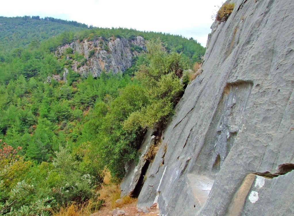 Karabel Hittite-Luwian Warrior Monument carved in rock near Kemalpaşa, İzmir, Turkey